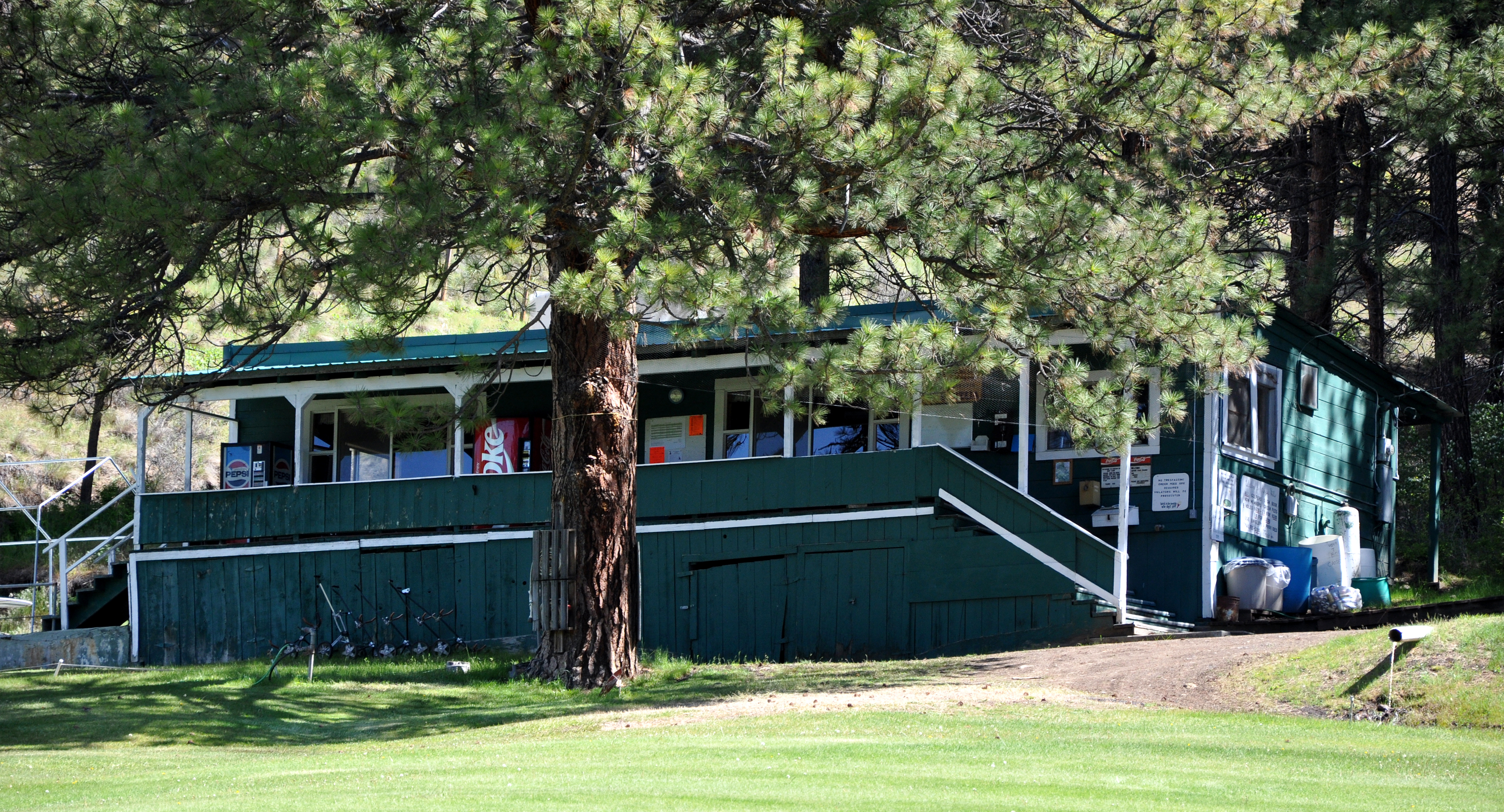 Clubhouse of the Kinzua Golf Club in Kinzua in the U.S. state of Oregon. The club's course, in a forest that formerly supported a lumber company town, has only six holes.